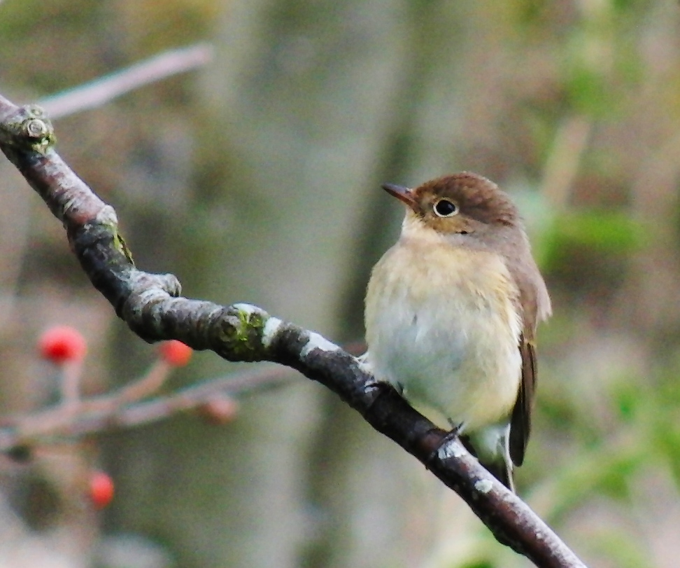 Ficedula parva, first-winter. Öland, Sweden.